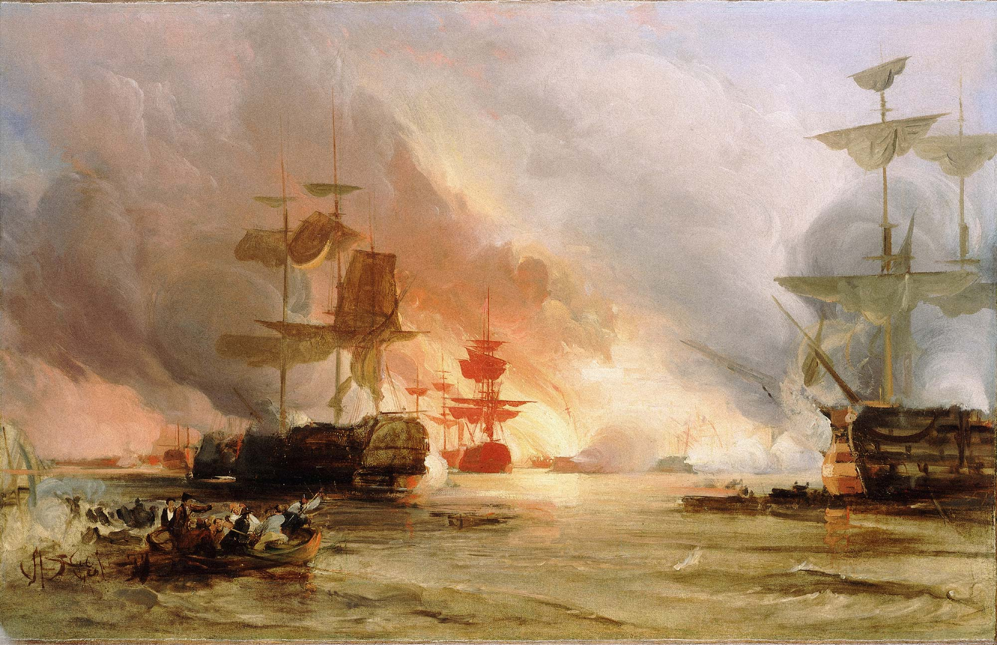 This is the freely painted oil study of George Chambers Senior’s ‘The Bombardment of Algiers, 27 August 1816’.In 1816 a squadron under Admiral Sir Edward Pellew was fitted out and sent to Algiers where they arrived, in company with a small Dutch squadron, on 27 August 1816. They sought the release of the British Consul, who had been detained, and over 1000 Christian slaves, many being seamen taken by the Algerines. When they received no reply the fleet bombarded Algiers in the most spectacular of several similar punitive actions of this period that finally broke the power of the 'Barbary pirates', who had been a plague on European commerce in the Mediterranean for centuries. Pellew was subsequently created Viscount Exmouth.The artist, George Chambers Senior (1803–40), went to Plymouth to sketch the men-of-war in the production of his painting. The NMM has a number of the preliminary drawings for it. In this oil study Chambers laid out the colours and masses of light, shade and smoke with the ‘Impregnable’ on the right and the ‘Minden’ in the left middle distance, as well as the vessels closer to batteries of the harbour, but omitting meticulous detail in favour of an atmospheric impression.